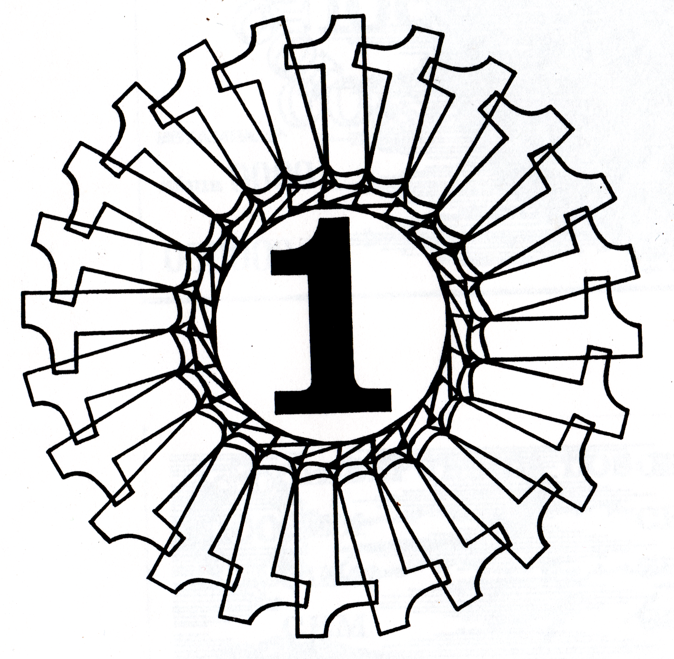 Une of Alexandre Wollner and Central Bank of Brazil.